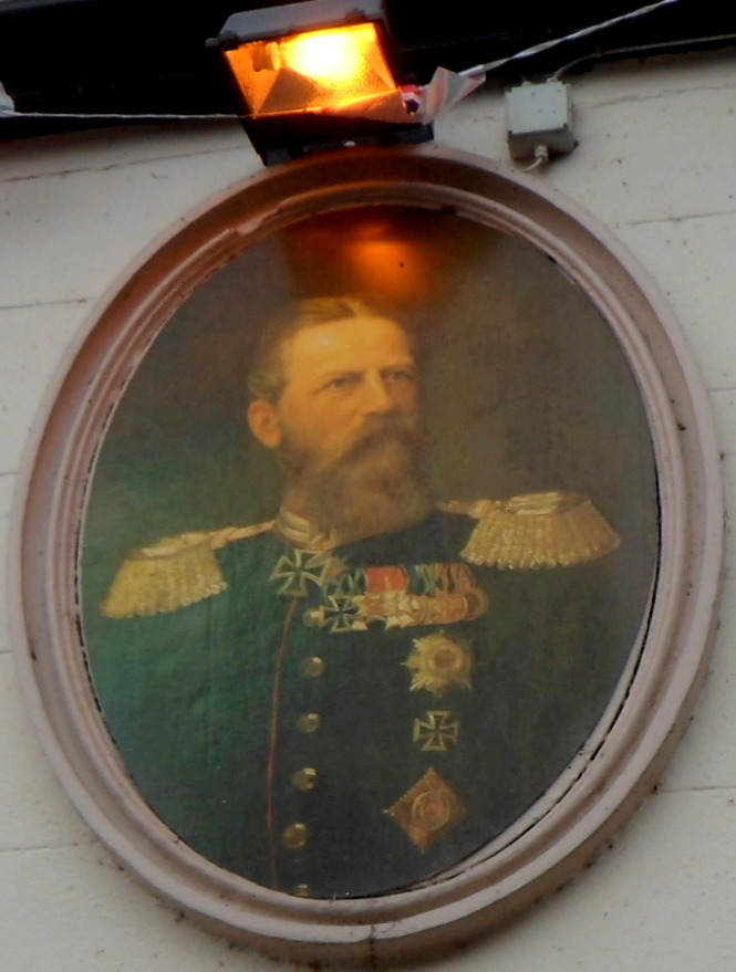 Portrait of Kaiser Friedrich III, The King of Prussia pub, Penpergwm